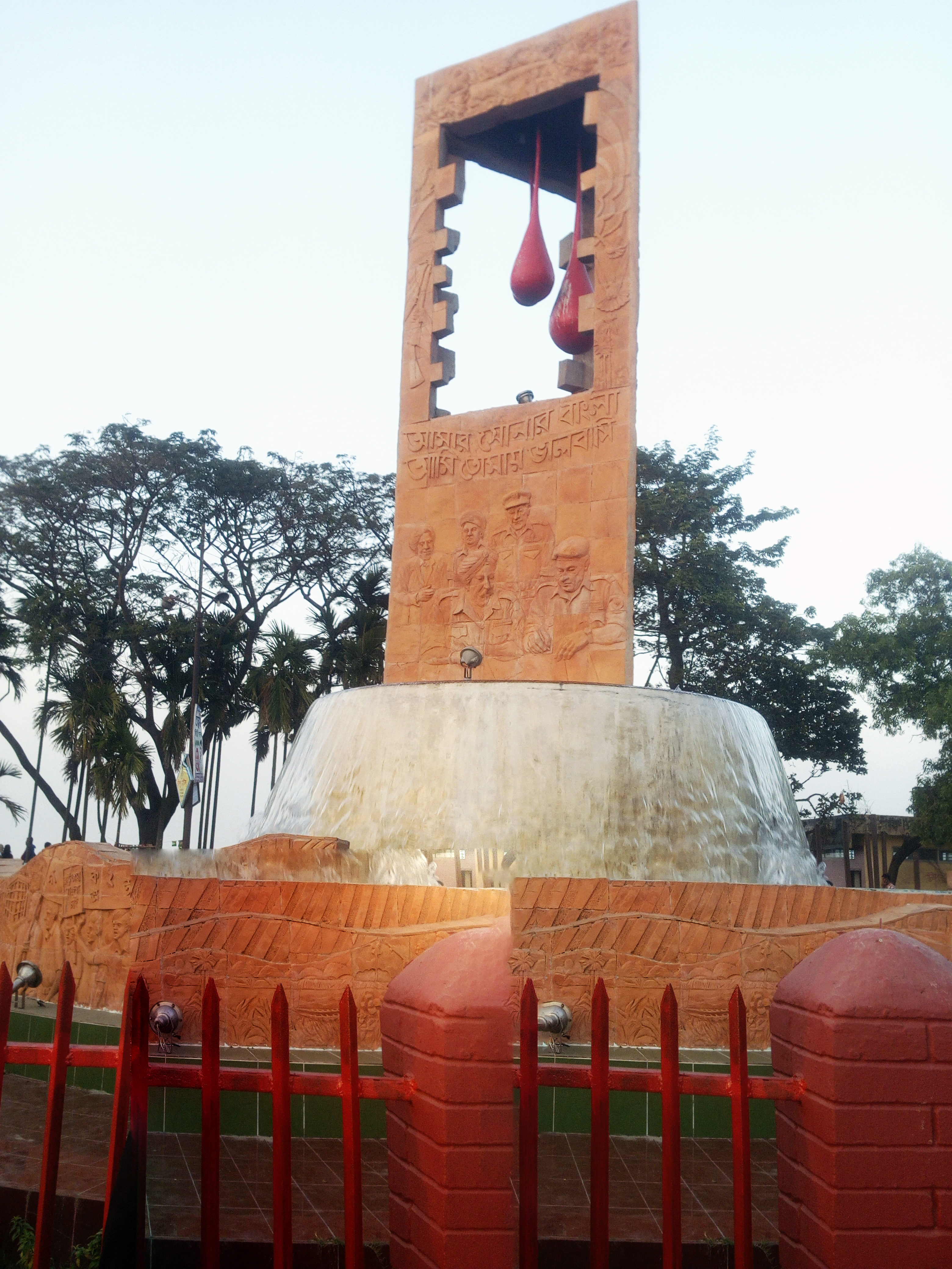 At the time of the liberation war, the occupation forces killed the freedom fighters and the common people with cruel torture. Later they were flown into the river. The bloodthirsty monument has been created to commemorate the martyrs killed in this place.